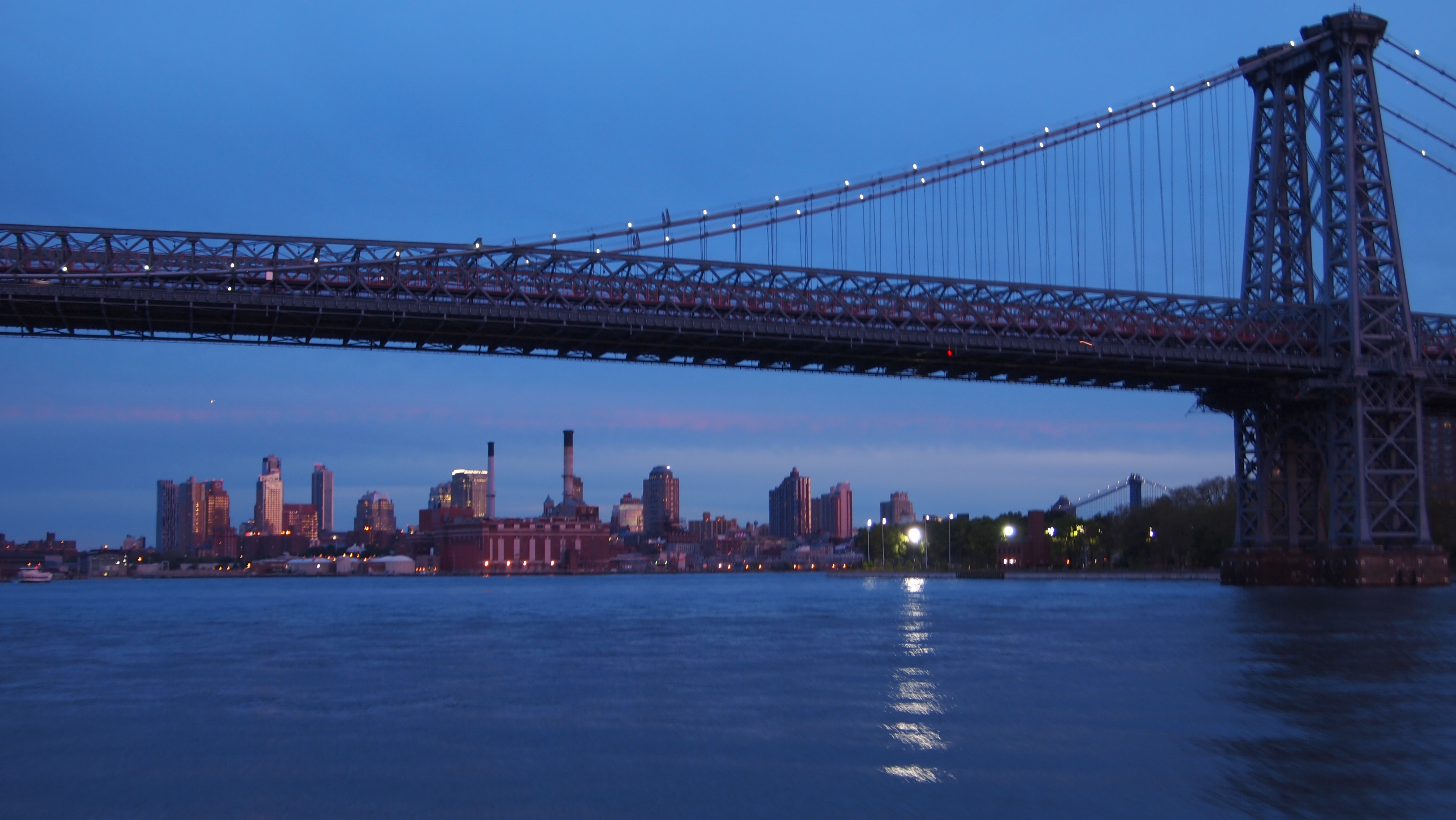 Williamsburg Bridge from the twilight sightseingboat